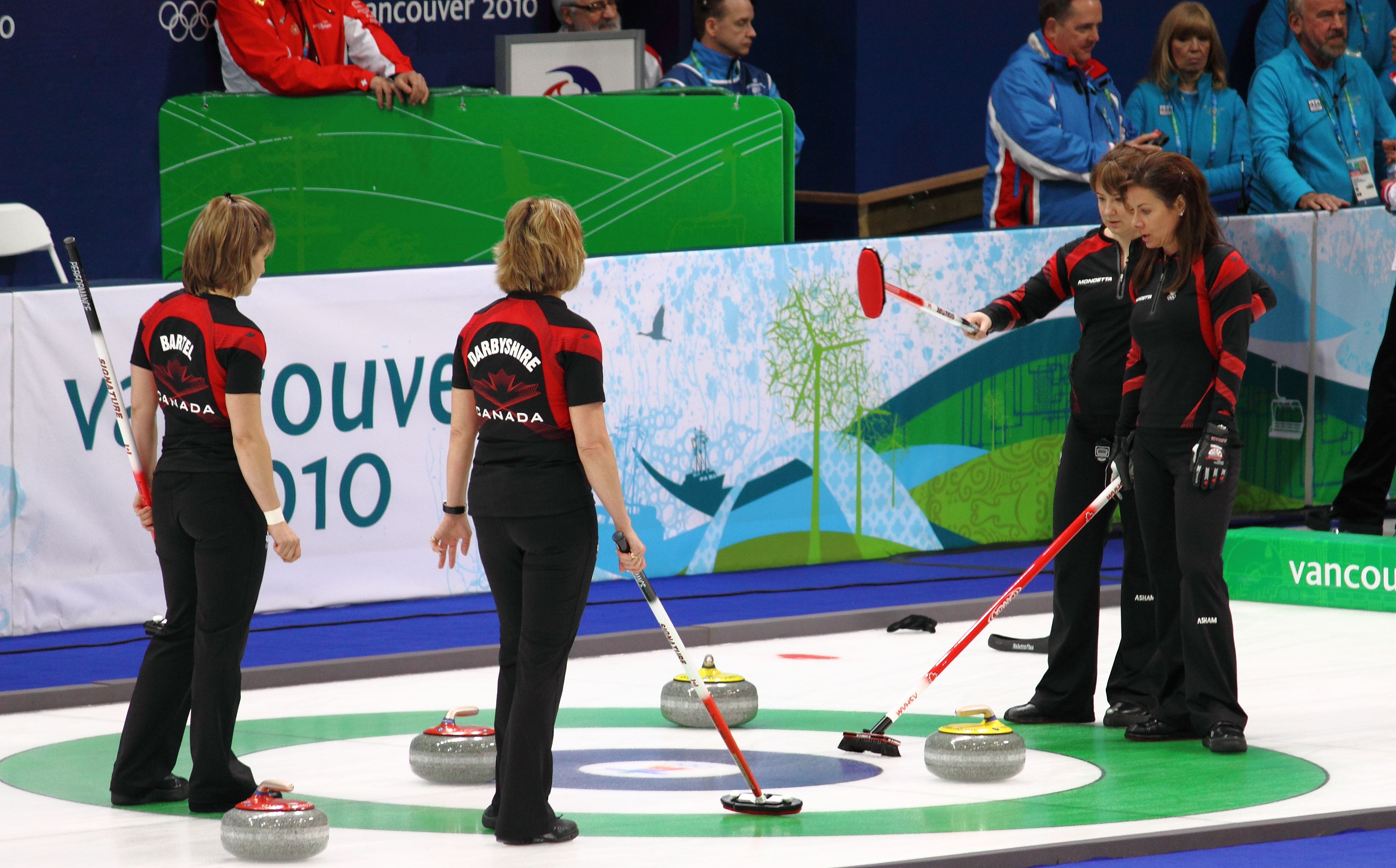 2010 Vancouver Olympic Games - Women's Curling - Preliminary from Vancouver Olympic Centre